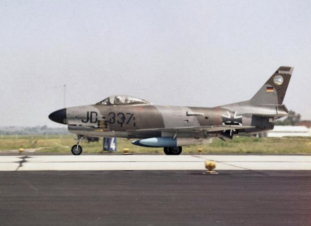 A West German Luftwaffe North American F-86K Sabre from Jagdgeschwader 74 (74th Fighter Wing) on the runway, probably at its home base at Neuburg an der Donau, Bavaria, Germany, in June 1965. This F-86K was assembled by Fiat (Italy) from NAA-built components. It had the construction number 242-1, USAF serial 56-4116, and received the German serials JE+237, JD+237, and JD+337. Later, it was transferred to Venezuela (serial FAV 0050) and was written off in 1990.